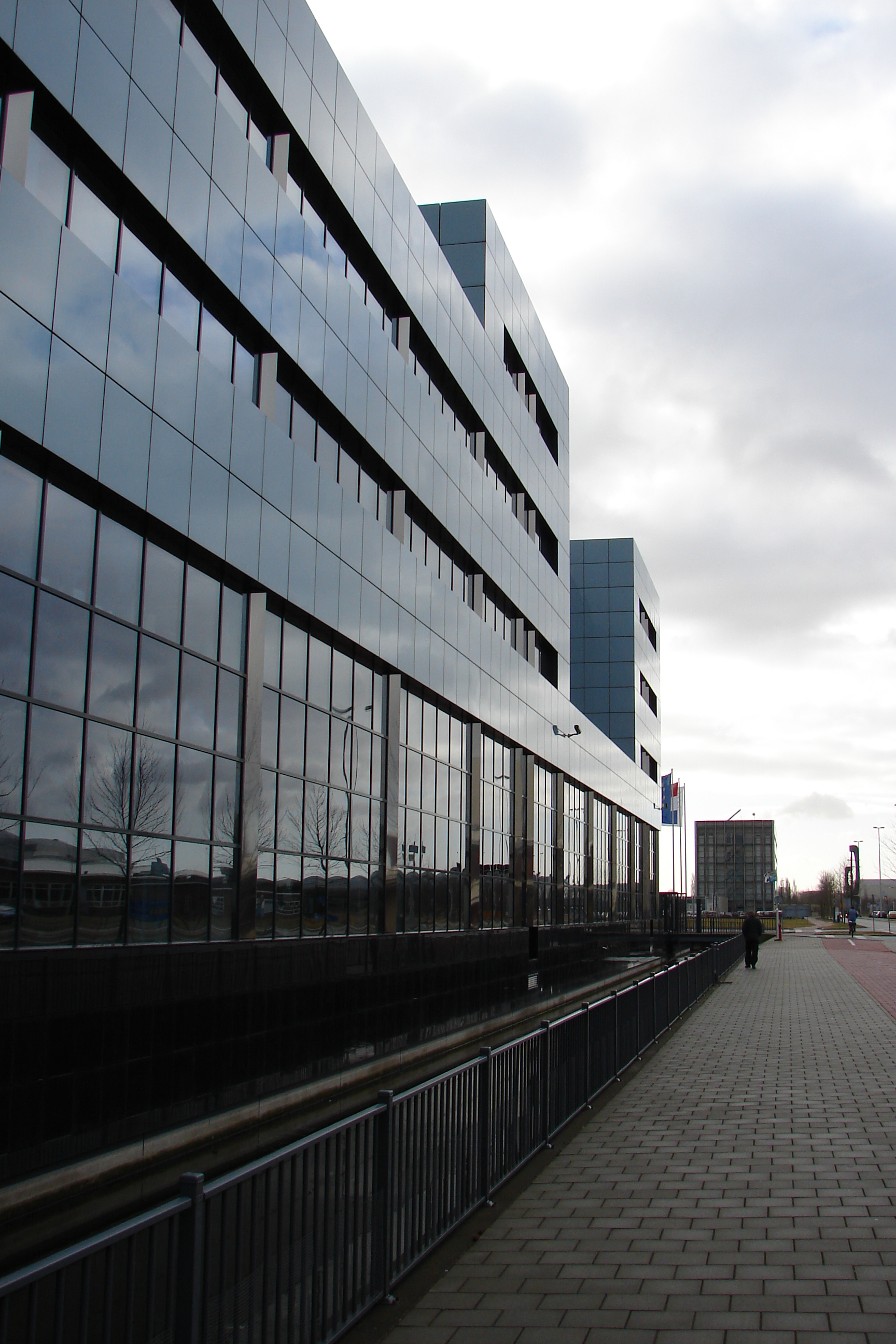 Main building of Air Traffic Control Netherlands ("LVNL"), Schiphol